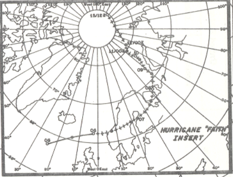 The insert map of Hurricane Faith's track during its extratropical stage. This image was cropped from the original map available at the source.